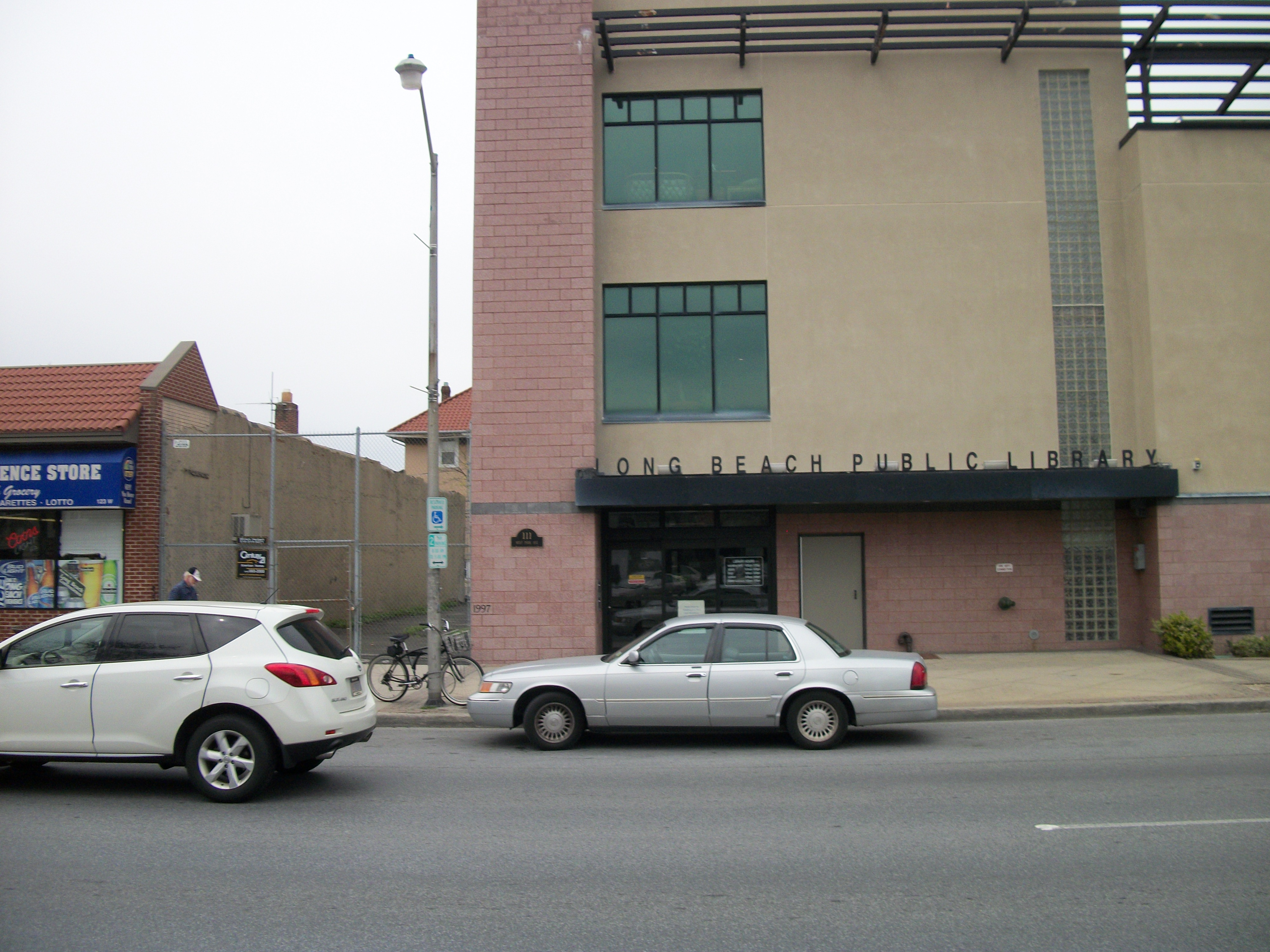 The current headquarters for the Long Beach (New York) Public Library.